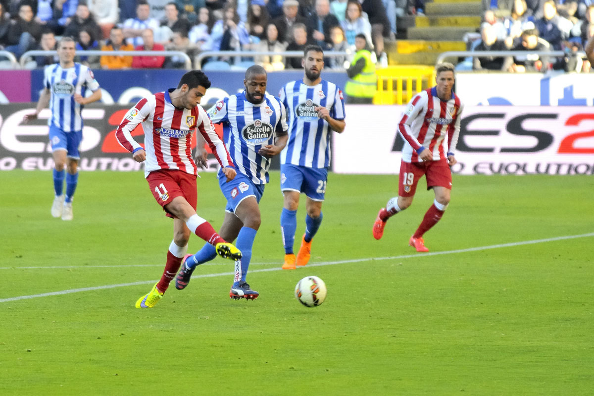 Raúl Jiménez playing for Atletico Madrid in 2015